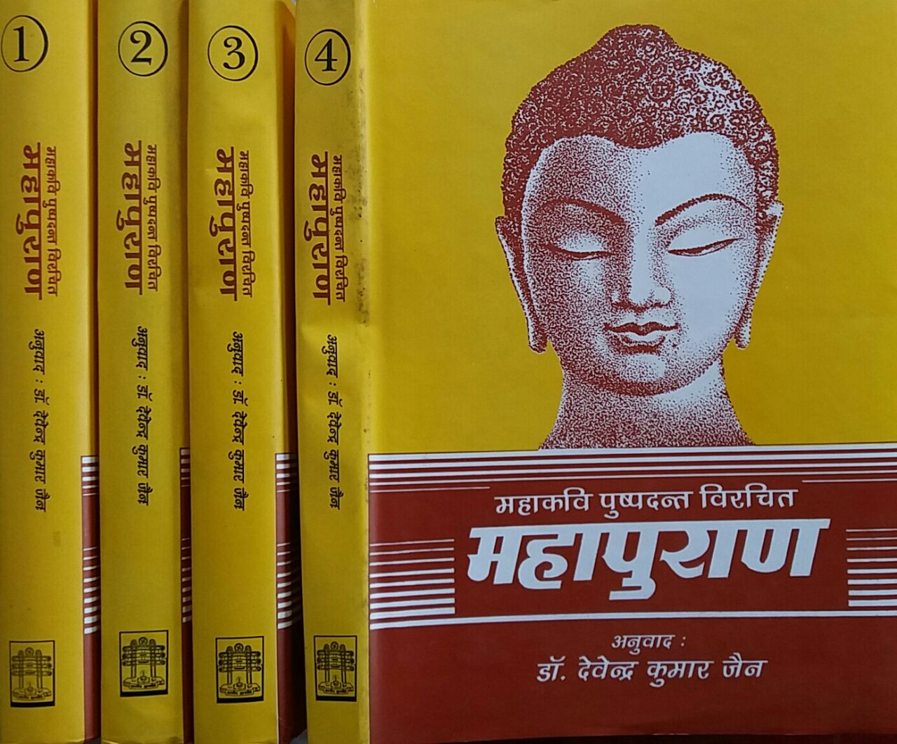 Book of Jainism